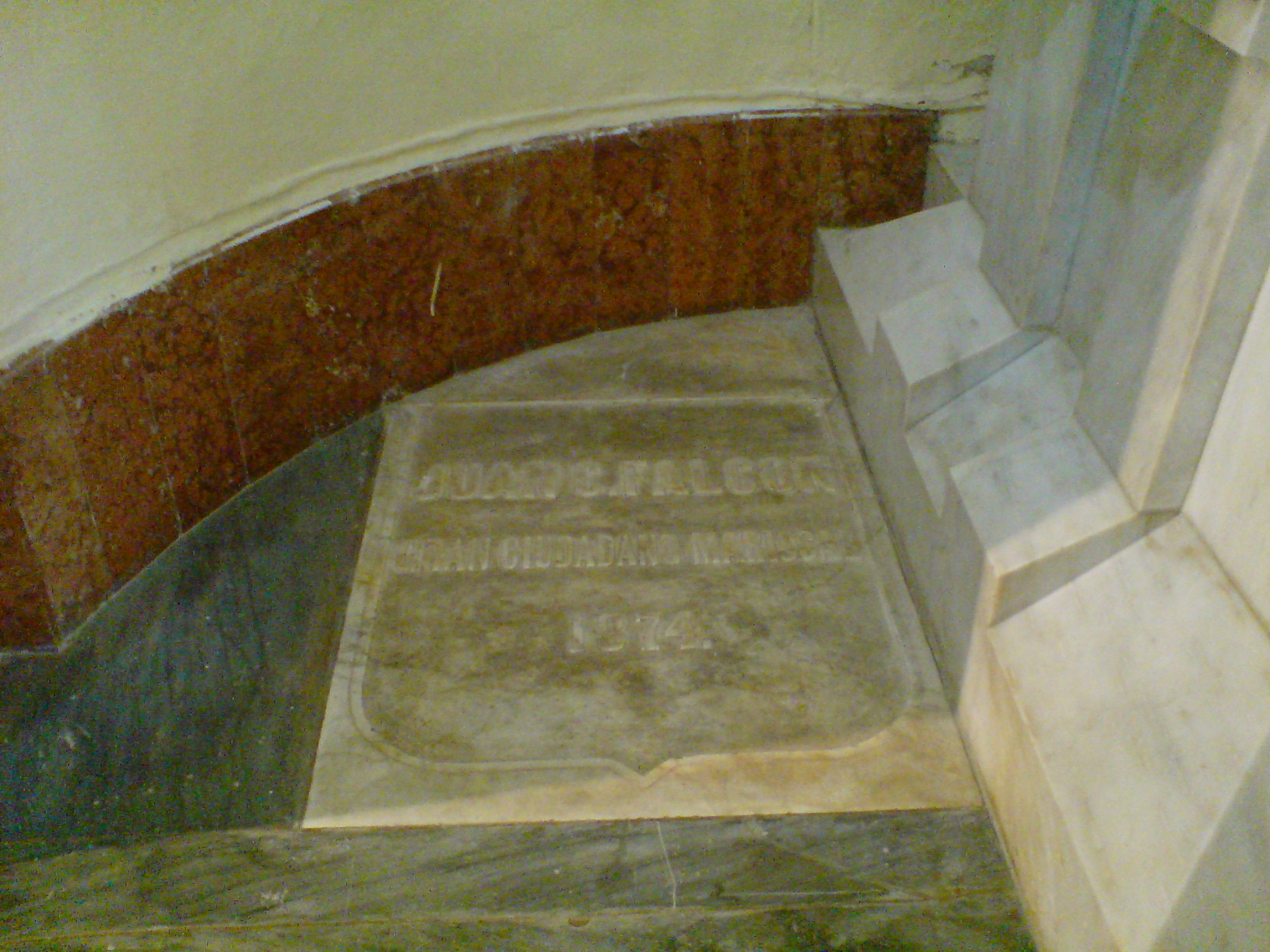 Tombstone of Juan Crisóstomo Falcón at one side of the Federation Monument, at the National Pantheon of Venezuela.